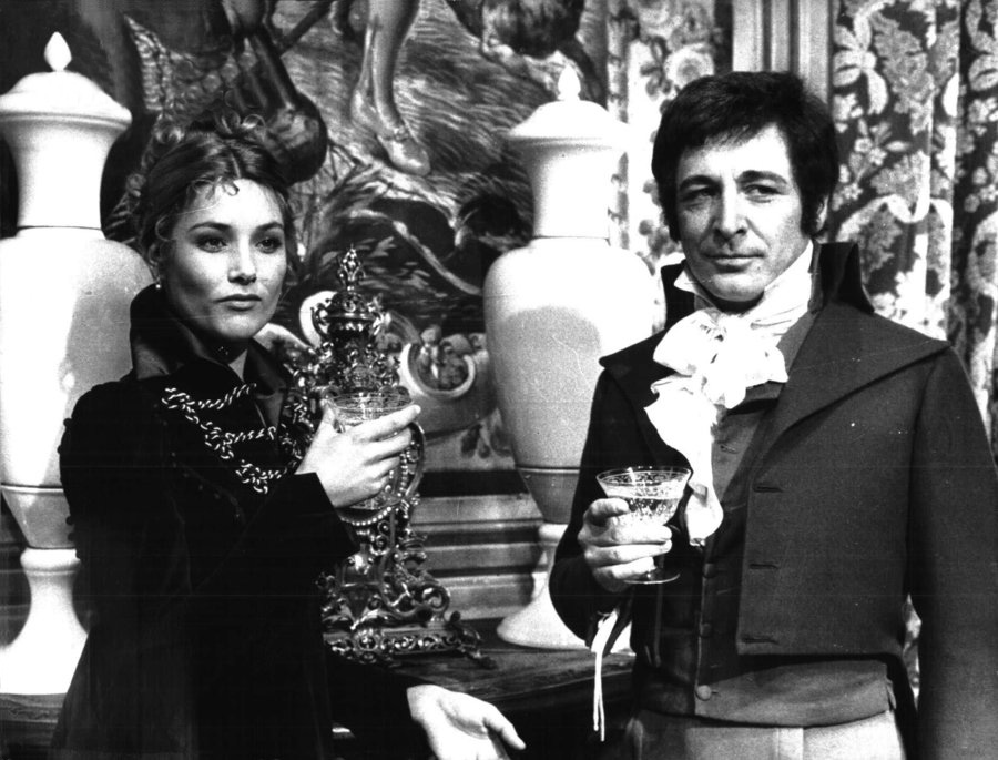 Lazio (Italy), 1975. From left to right: actors Janet Ågren and Ugo Pagliai in the television costume drama L'amaro caso della baronessa di Carini, set in Sicily in 1812.